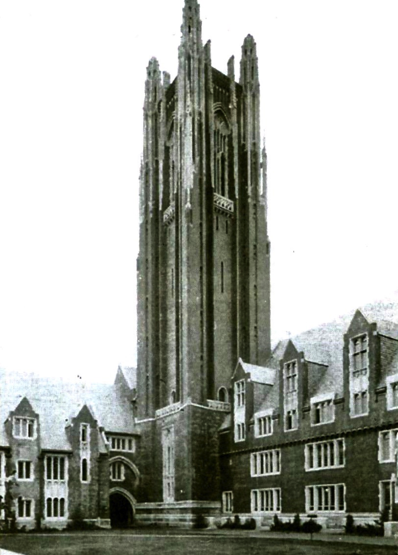 Spire of Wellesley College, Massachusetts (Galen Stone Tower)